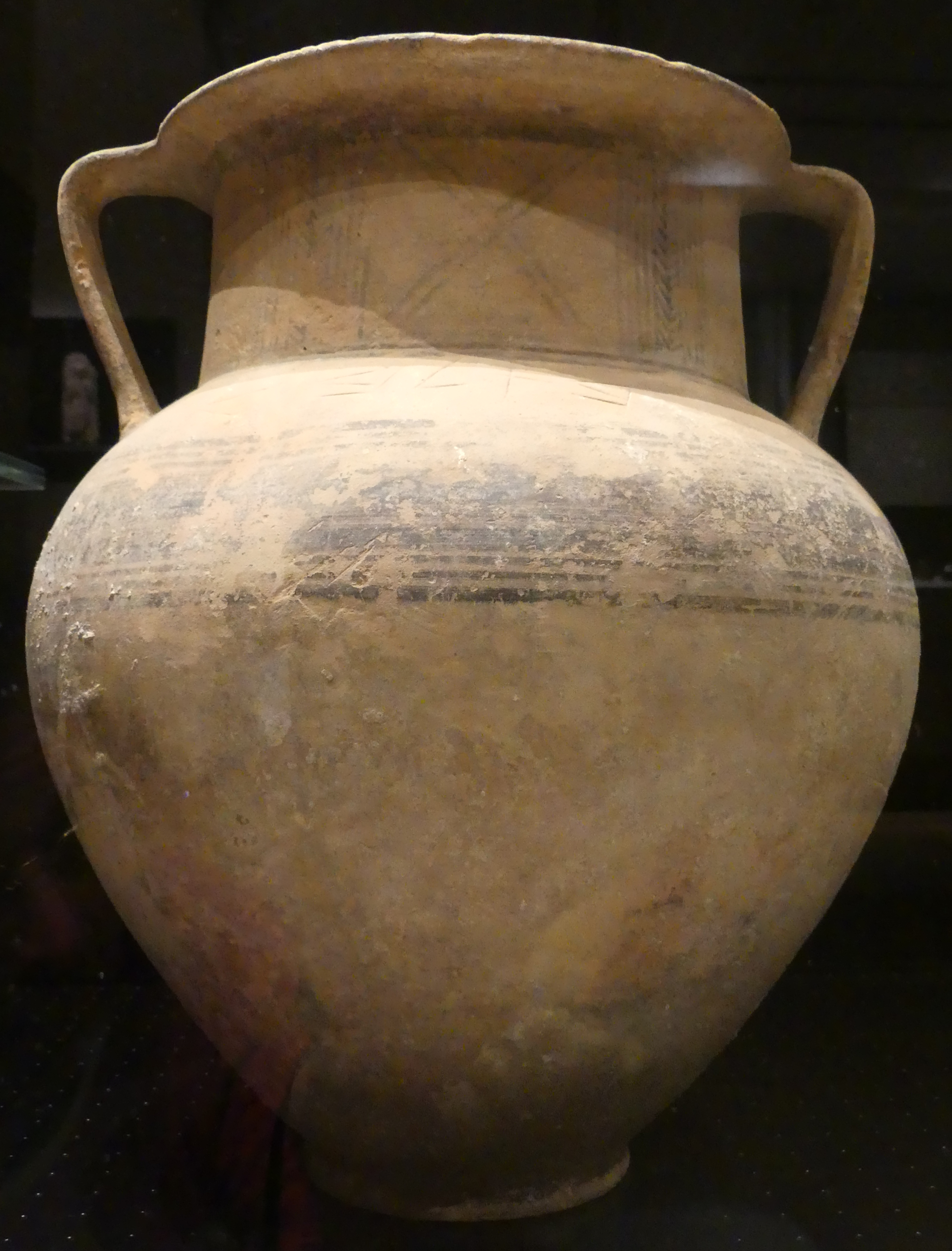 "Rashidiyeh (Tyre area) Tomb IV dated 775-700 B.C. Iron Age II (900-550 B.C.) .. Cinerary urn with Phoenician incised inscription BT LB' (House of LB')" On display in the basement of the National Museum of Beirut, Lebanon